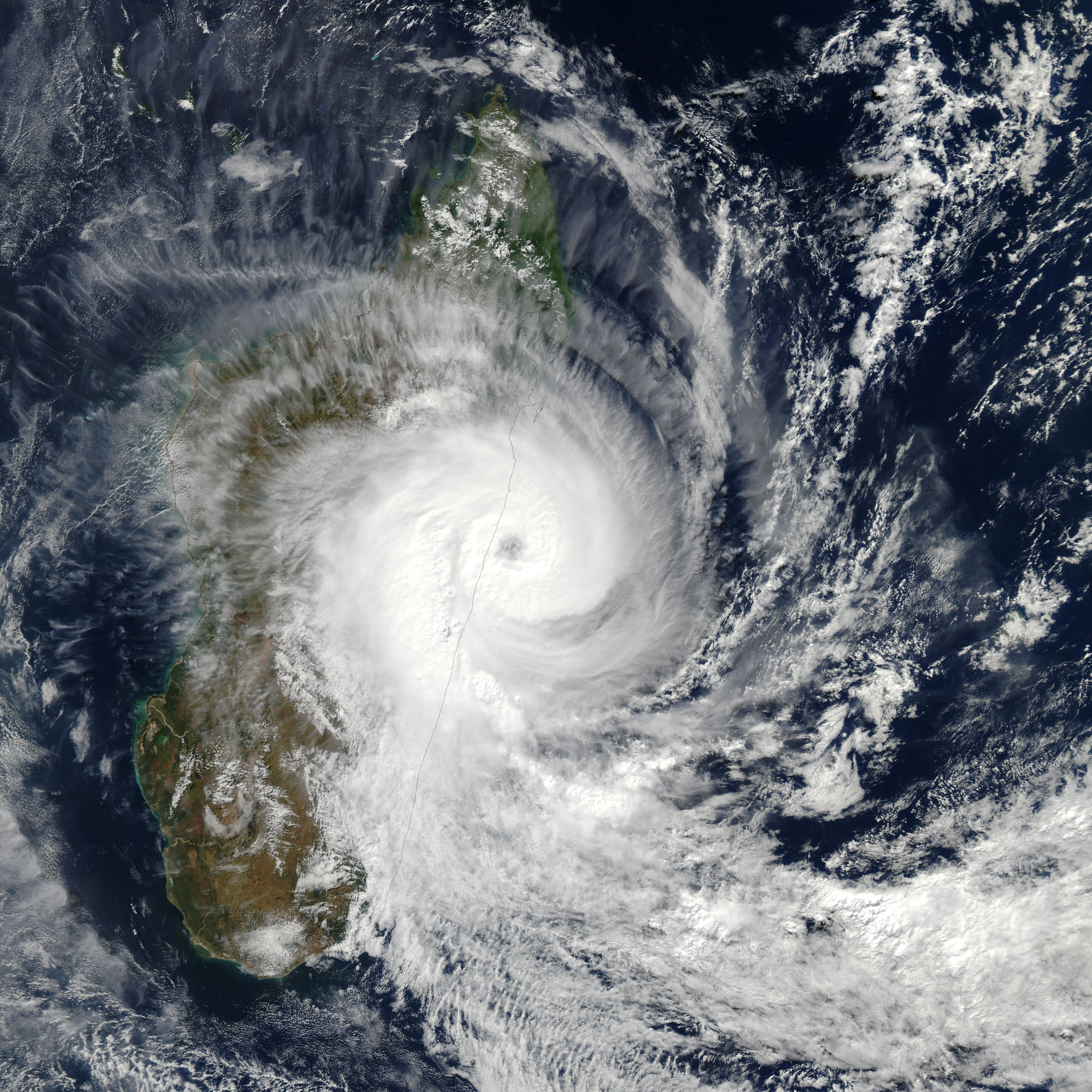 On May 8, 2003, Tropical Cyclone Manou had come ashore on Madagascar, and was captured in this Moderate Resolution Imaging Spectroradiometer (MODIS) image from the Aqua satellite.